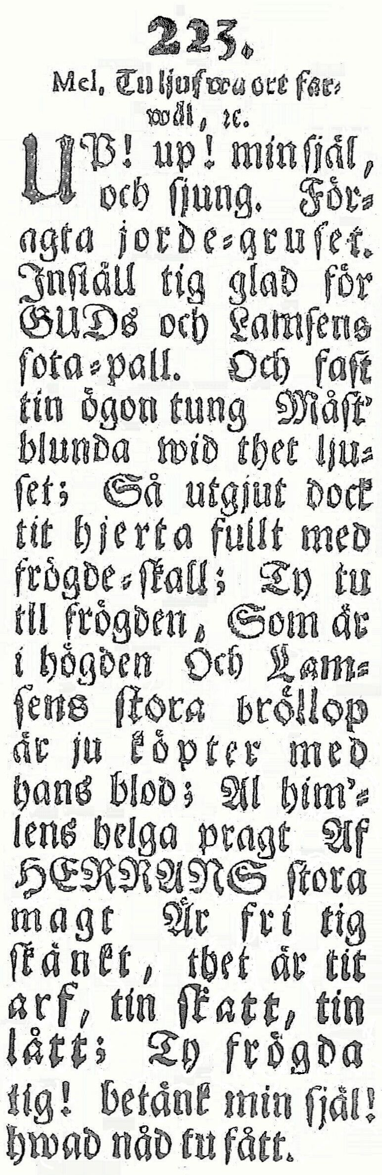 Hymn of Johan Kahl Hymn in Zions Sånger 1743